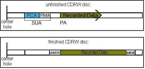 Graphic of CDRW illustrating PMA area